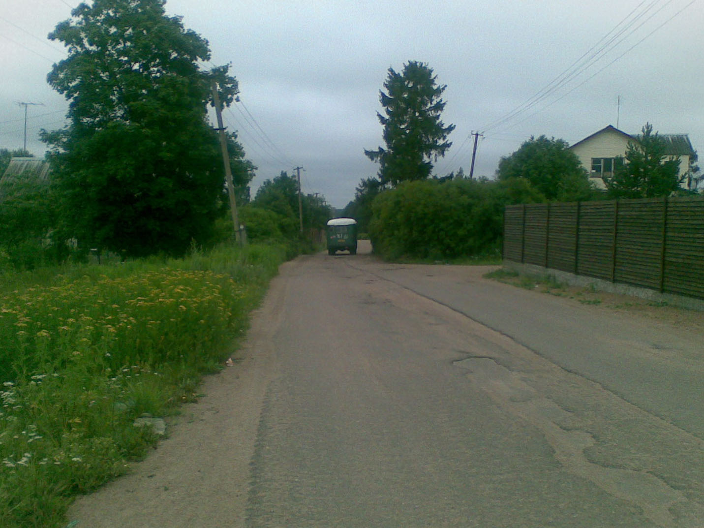 Central road of Staroselye, Vyborgsky District, Leningrad Oblast